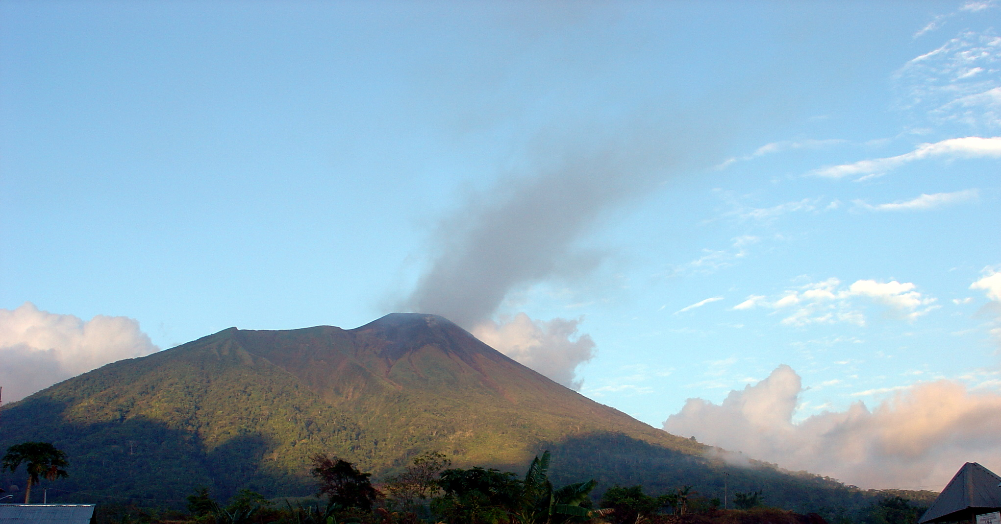 Ternate (Indonesian: Pulau Ternate) is dominated by the volcanic Mount Gamalama (1715 m). The volcano erupts regularly, covering the island with volcanic dust. Major past eruptions of Gamalama include 1673, when a large, but undetermined number of people were killed, and 1772, when about twenty inhabitants died. The largest recent eruption of Gamalama was in September 1980, when 30,000 of the islands 56,000 residents were forced to temporarily flee to nearby Tidore. The island now has an area of 76 square kilometres (29 square miles) and held a population estimated at 145,143 in July 2003. The town is located at 0°47′N 127°22′E.